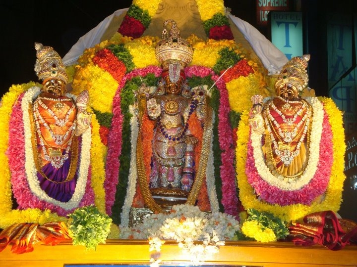 This is a photograph captured by me During the Chariot festival of GOD Sri Ranganatha Swamy.I am the son of one of the priests of this temple.